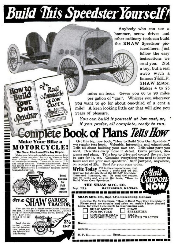 Advertisement of the Shaw Speedster home-build automobile from Practical Mechanics 1924